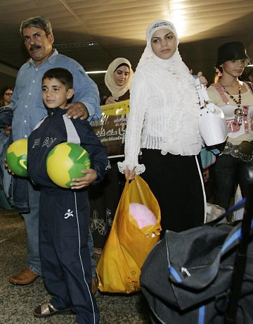 Palestinian immigrants in São Paulo.